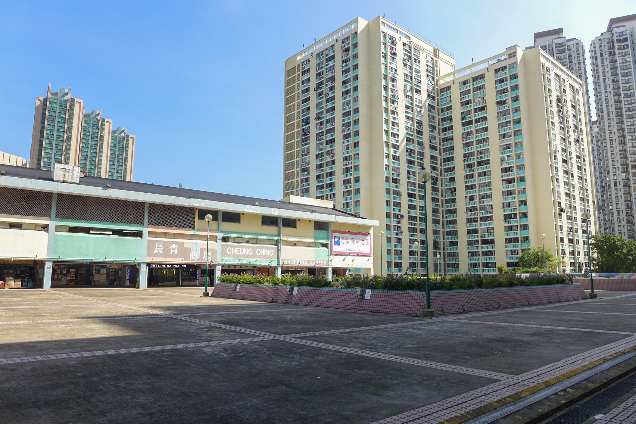 Cheung Ching Shopping Centre Podium